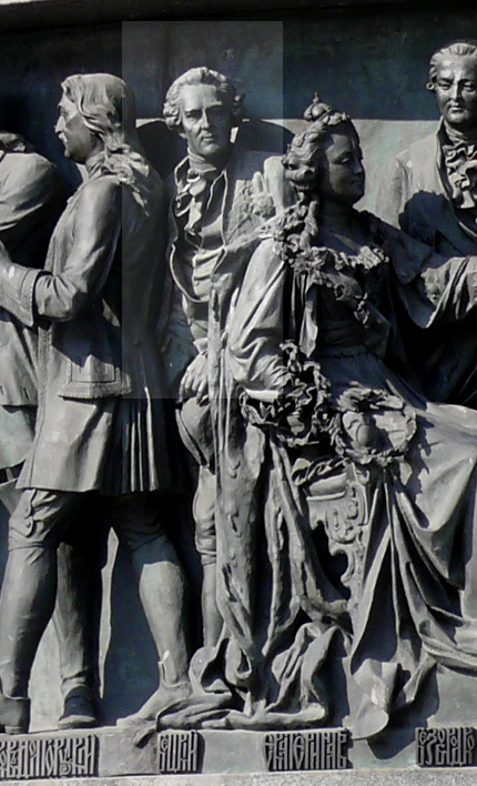 Ivan Betskoy on the Monument «Millennium of Russia» in Veliky Novgorod